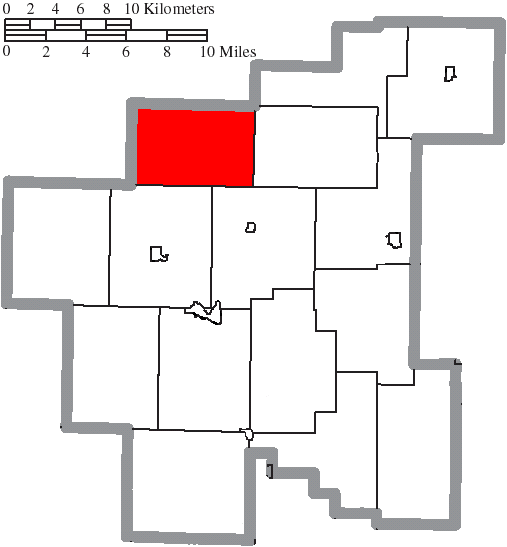 Map of the municipal and township boundaries of Noble County, Ohio, United States, as of the 2000 census, with the location of Buffalo Township highlighted. Township borders are shown only in unincorporated areas in order to differentiate incorporated and unincorporated areas more clearly.